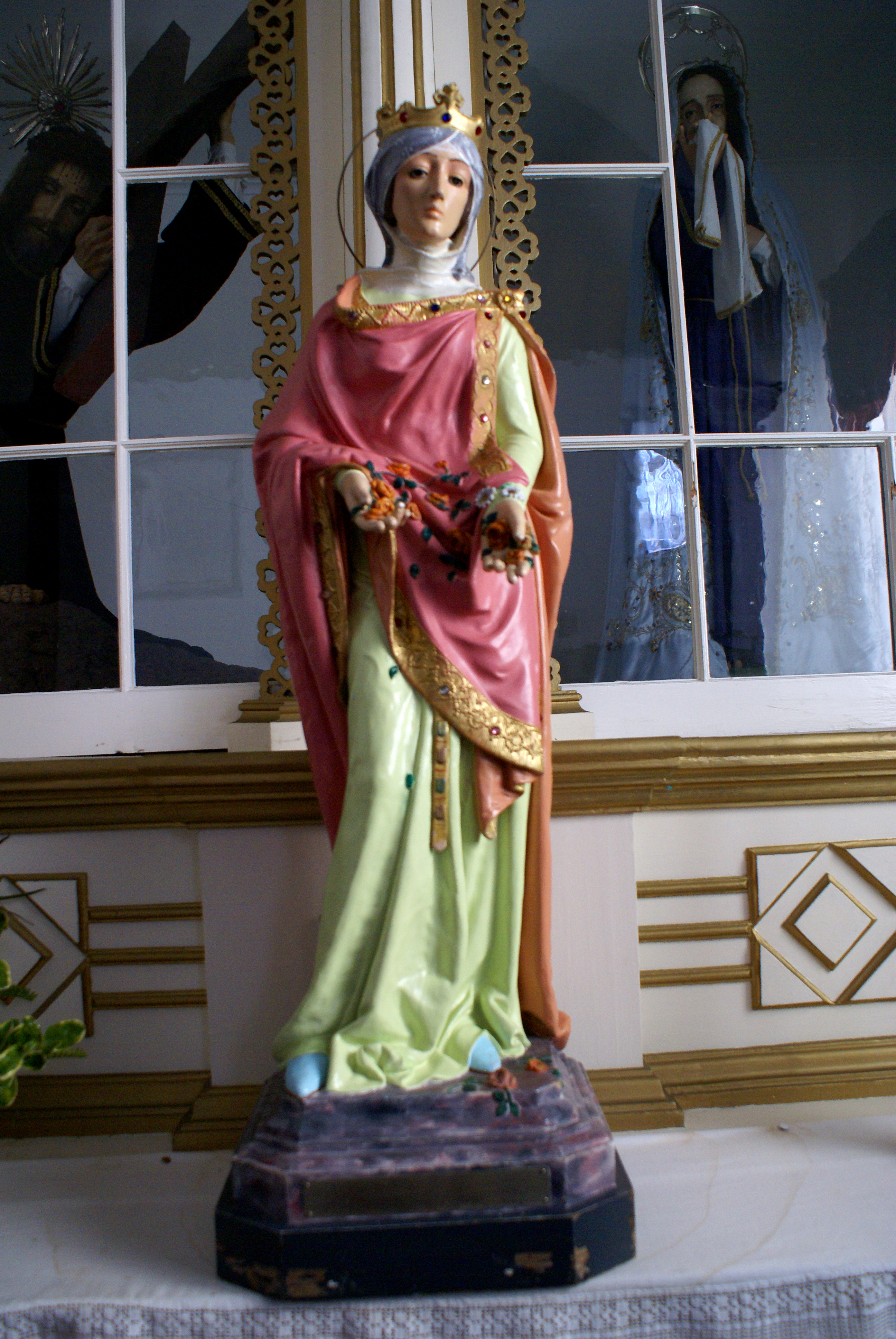 Conceptualized image of Queen Elizabeth of Aragon, in the Church of São Sebastião, Ginetes, Ponta Delgada, São Miguel (Azores), Portugal